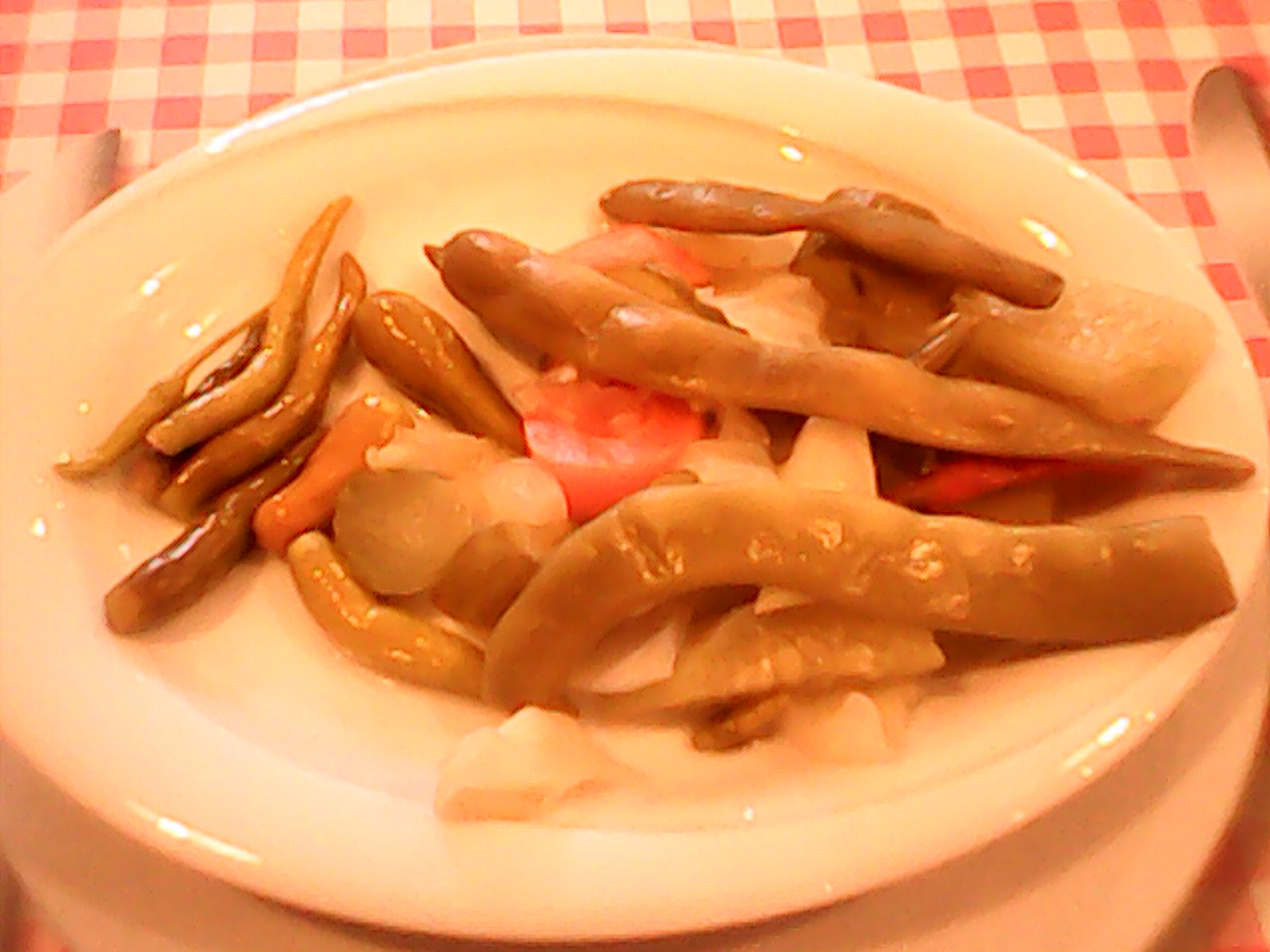 A plate of mixed turshu ("turşu") in Turkey. It contains also green beans, rare for most of Turkey. In the central part of the Black Sea Region, the green bean turşu is made into a warm dish called "turşu kavurması", stir frying the beans with chopped onions and other minor ingredients.